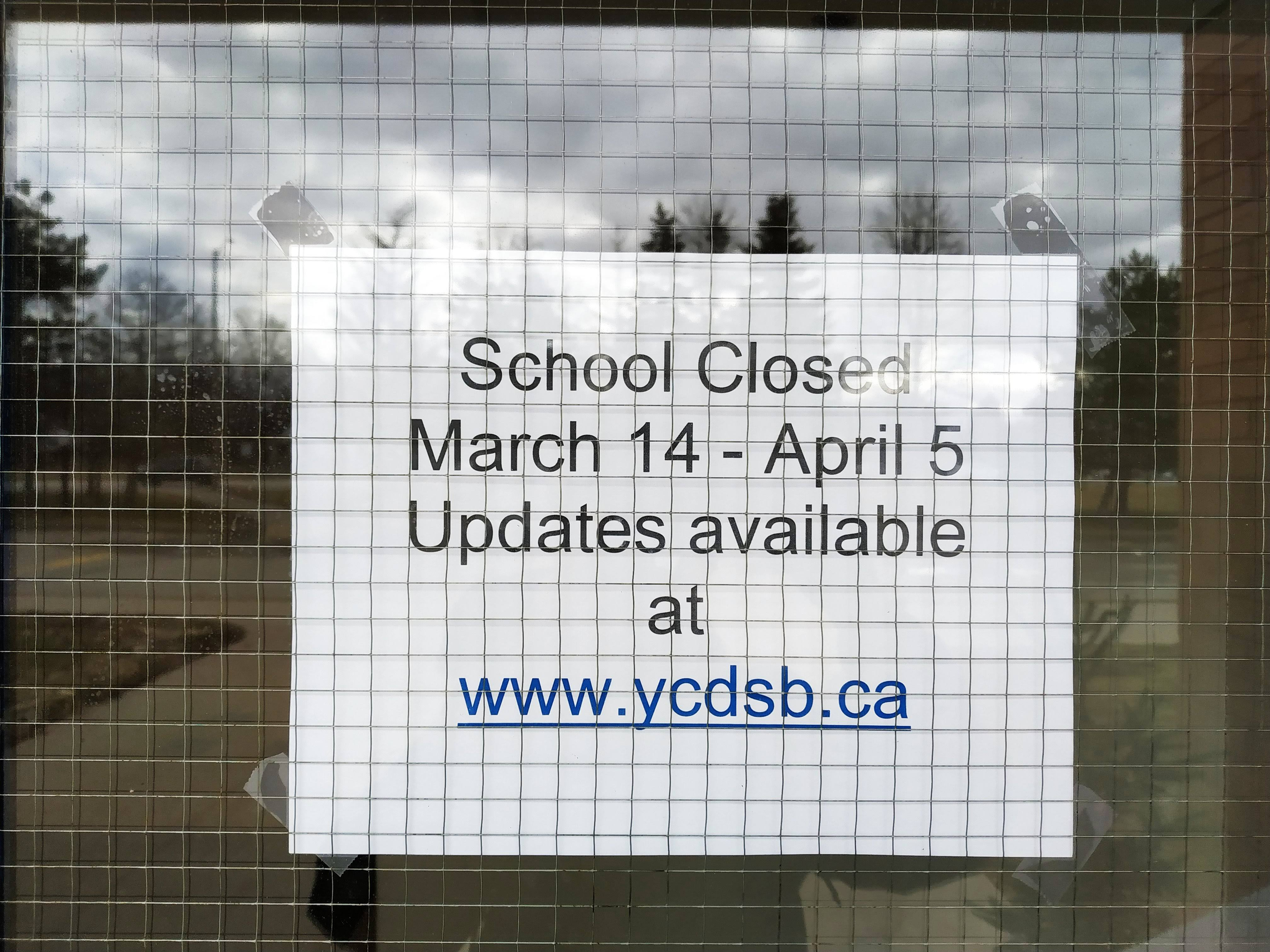 A closure notice on some of the doors of Father Michael McGivney Catholic Academy in light of a school shutdown over COVID-19. The shutdown was announced the day before (12 March 2020) by the provincial government and the Minister of Education, Stephen Lecce. It affected all publicly-funded schools in the province and was set to take place beginning on the 16th.